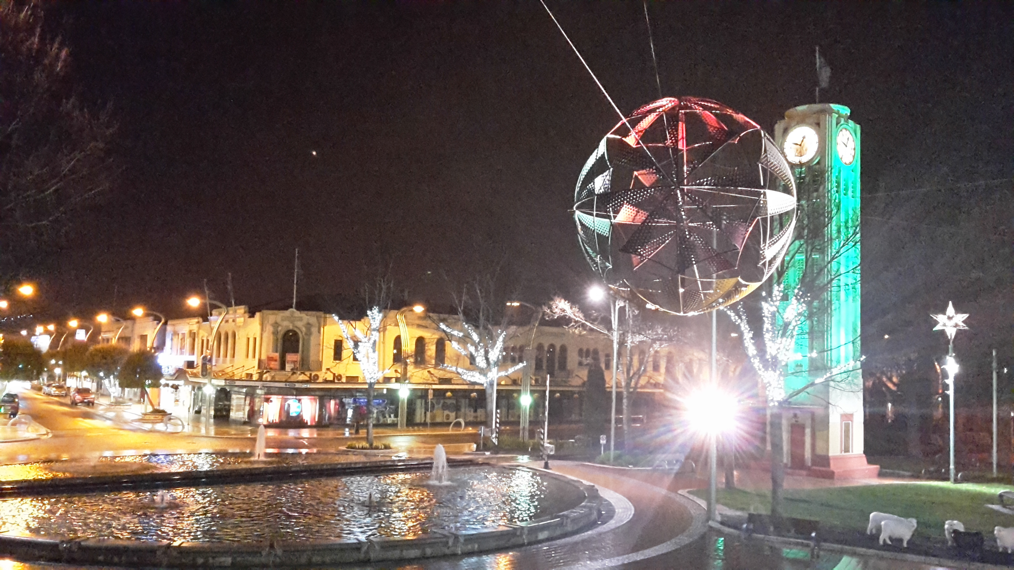 The Hastings CBD as it appears at night, looking towards the south.